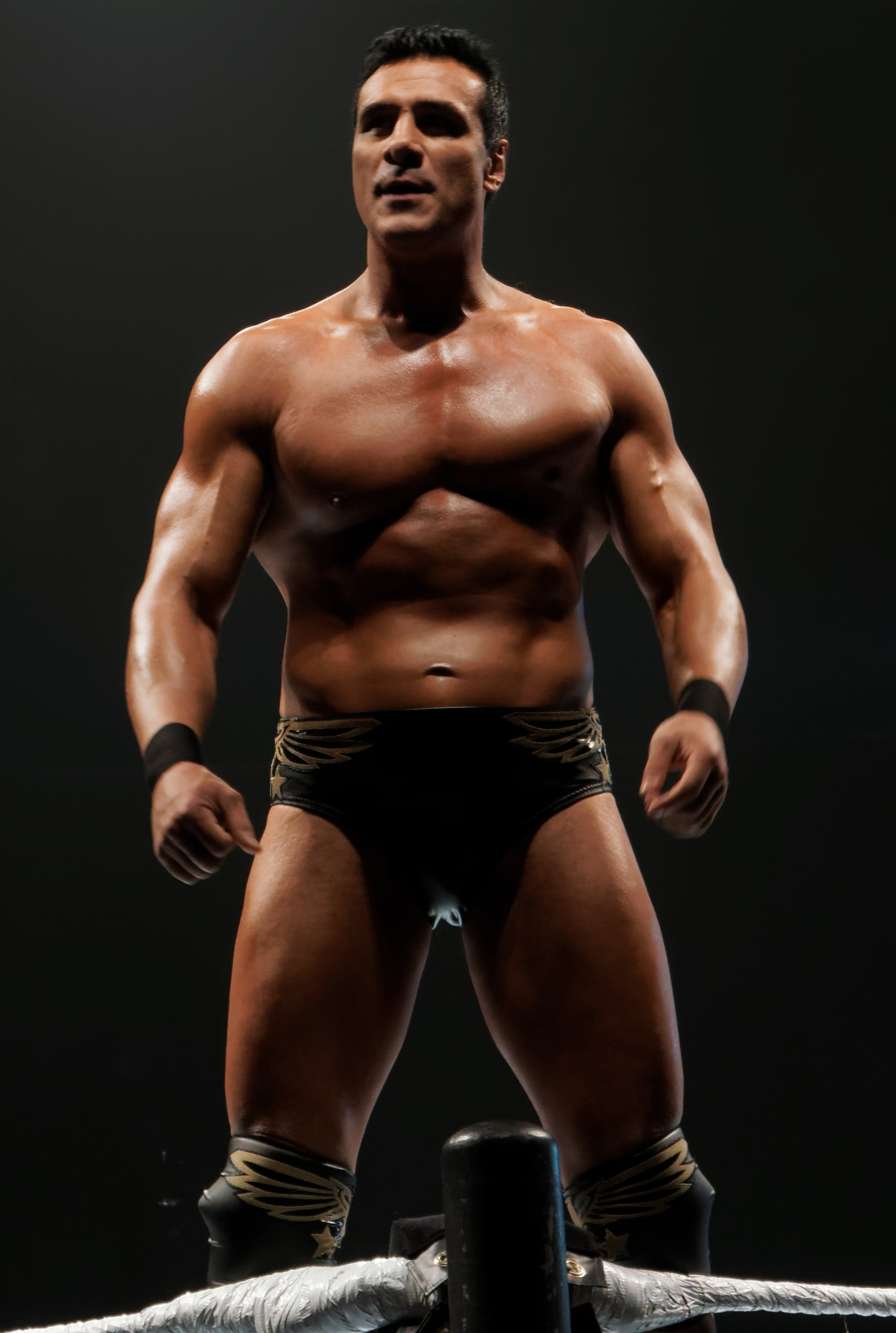 Alberto Del Rio in April 2016